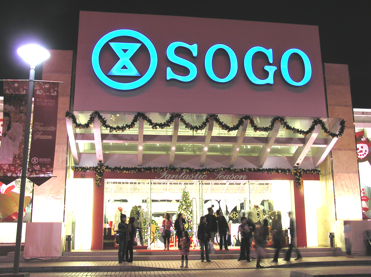 The Sogo Department Store at Tsim Sha Tsui, Hong Kong The photograph was taken by Alan Mak on December 27th, 2007.